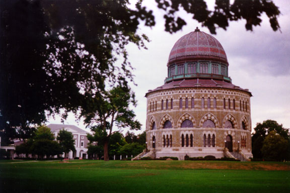 Nott Memorial Hall at Union College in Schenctady, New York in 1997.